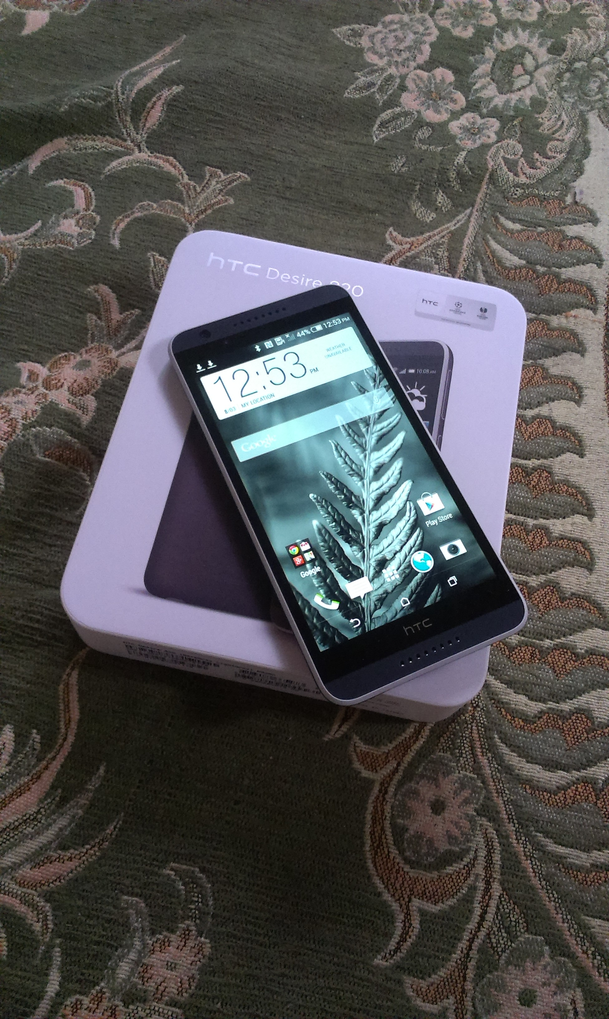 HTC Desire 820. Black Model with Beats Audio. Running Sense 6. Android 4.4.4 KitKat